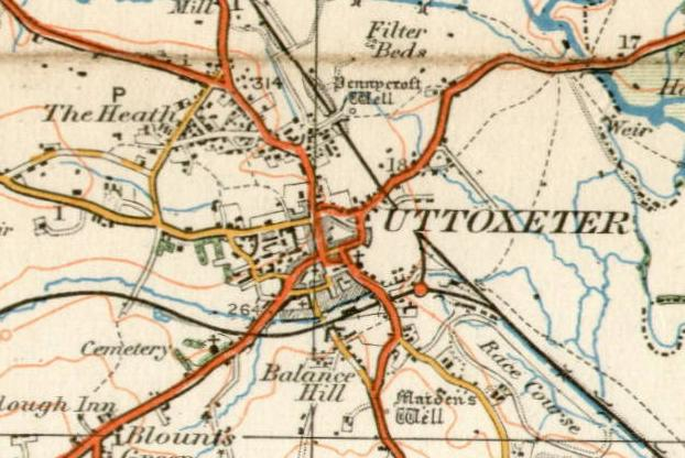 Scan of a map of the area around the Uttoxeter and The Heath area